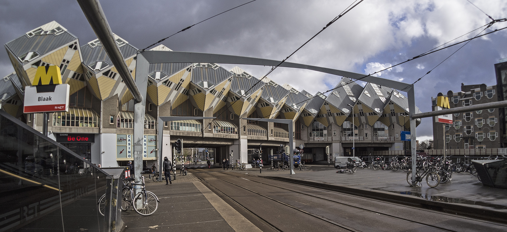 Rotterdamm Houses by Piet Blom